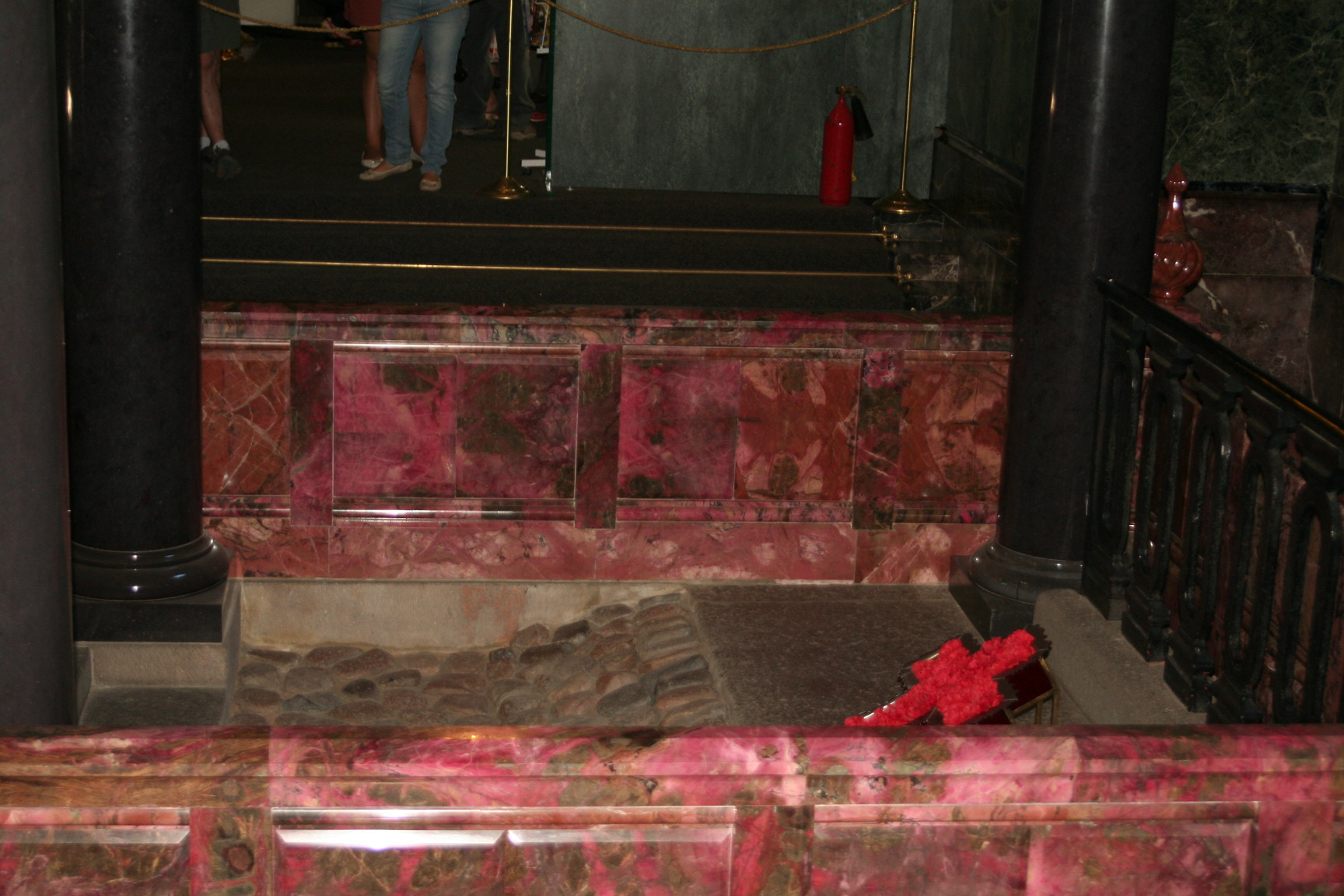 Interiors of the Church of the Saviour on the Blood